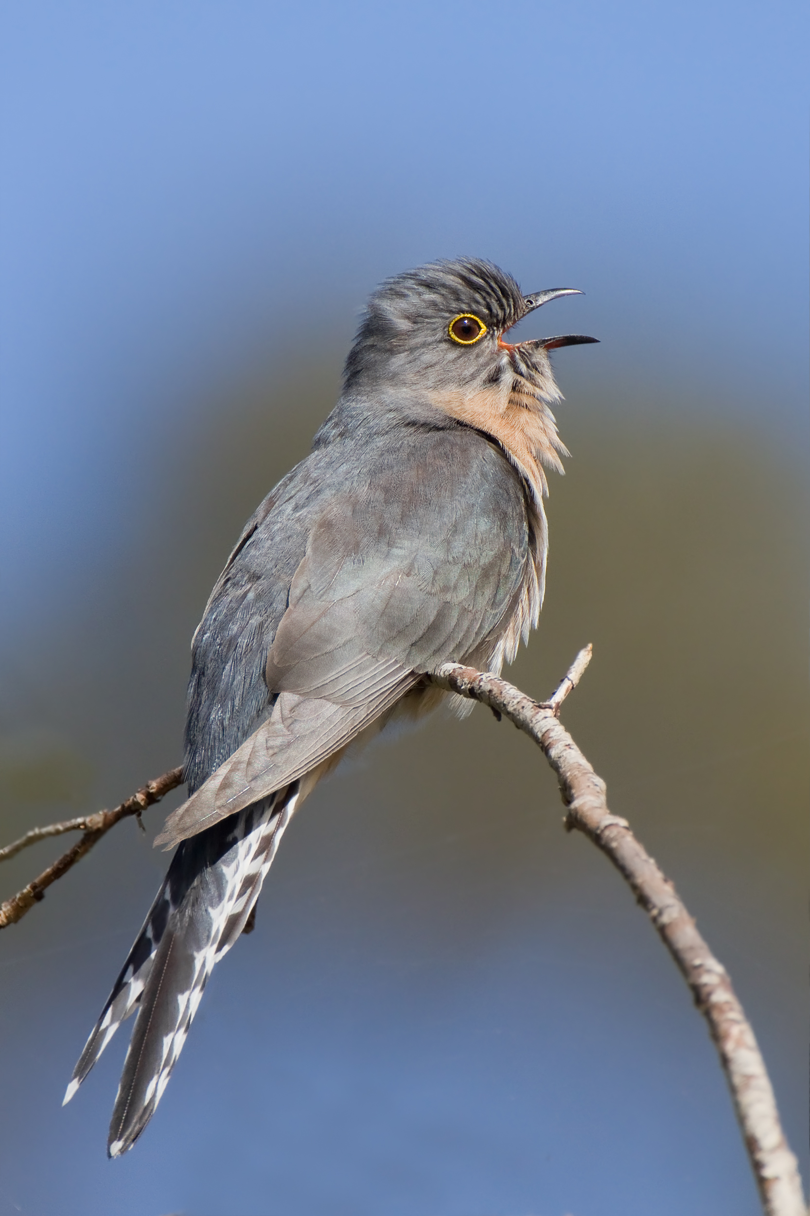 Fan-tailed Cuckoo (Cacomantis flabelliformis), Bruny Island, Tasmania, Australia